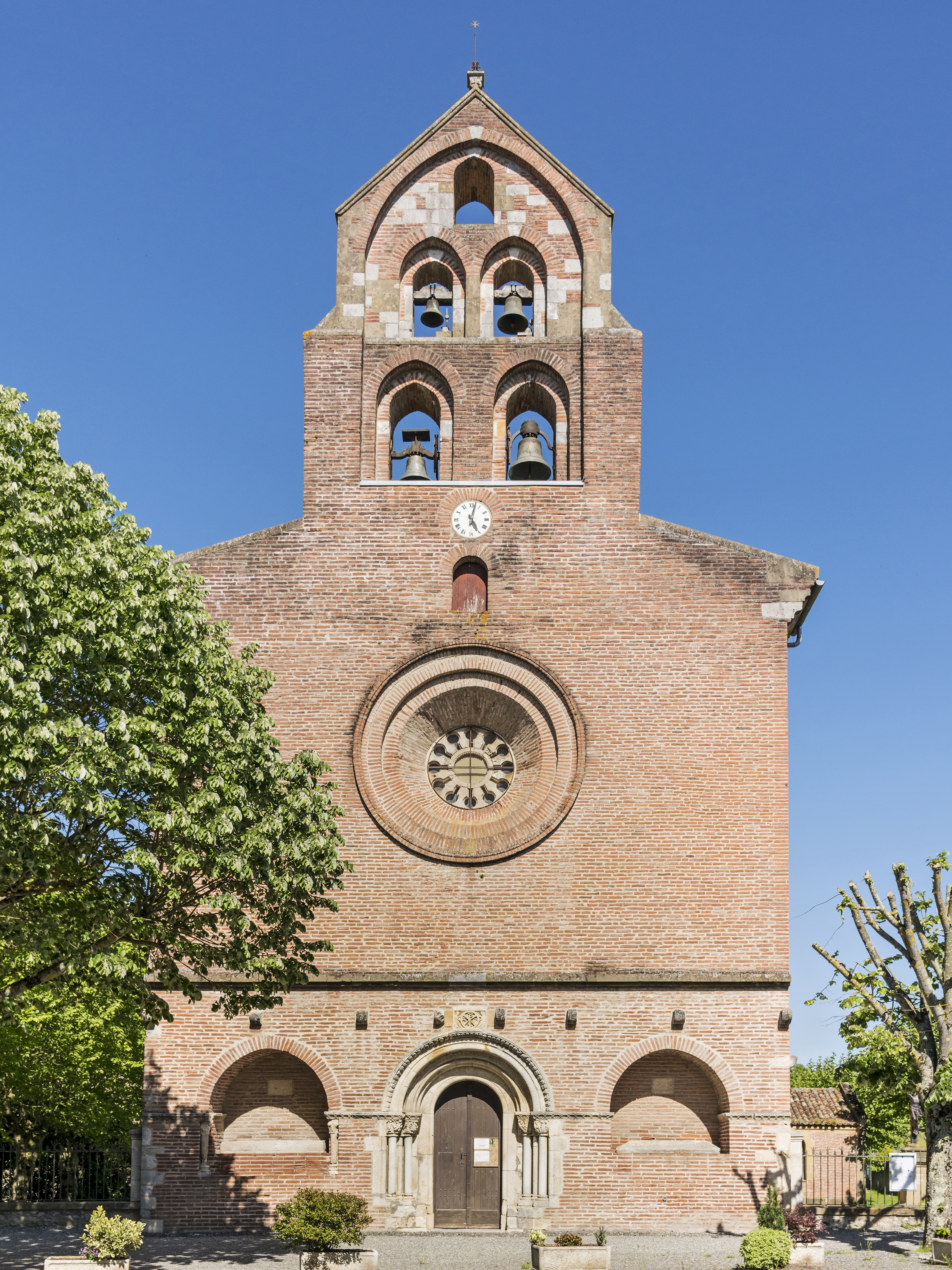 Façade and Bell-gable of the Saint-Christophe-des-Templiers church; a templar church located in Montsaunes, in Occitanie France.